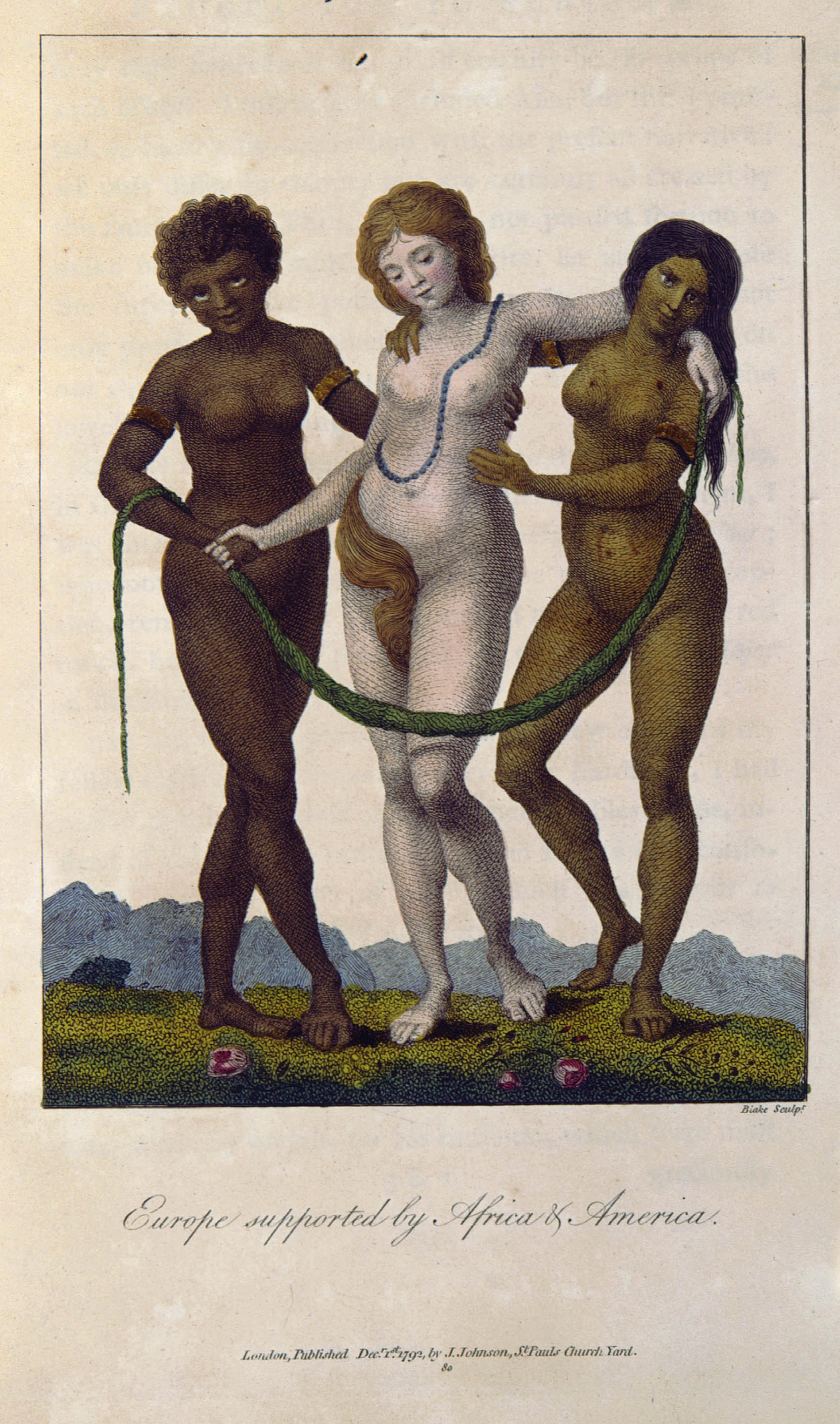 Blake after John Gabriel Stedman Narrative of a Five Years copy 2 object 16: "Europe Supported By Africa and America"